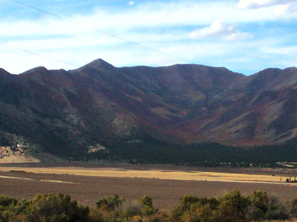 Miami, 5/13/07.